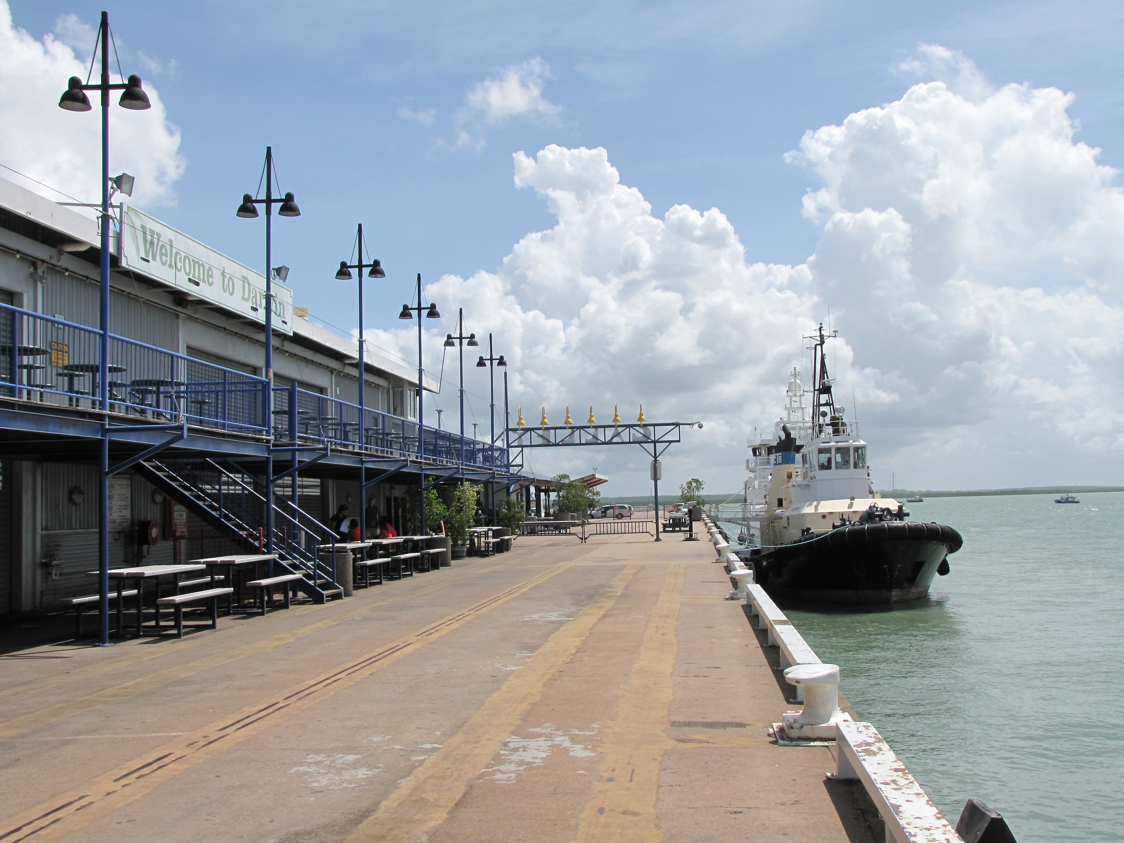 The lack of customers at 11am in the morning definitely shows this photo was not taken during the tourist season.